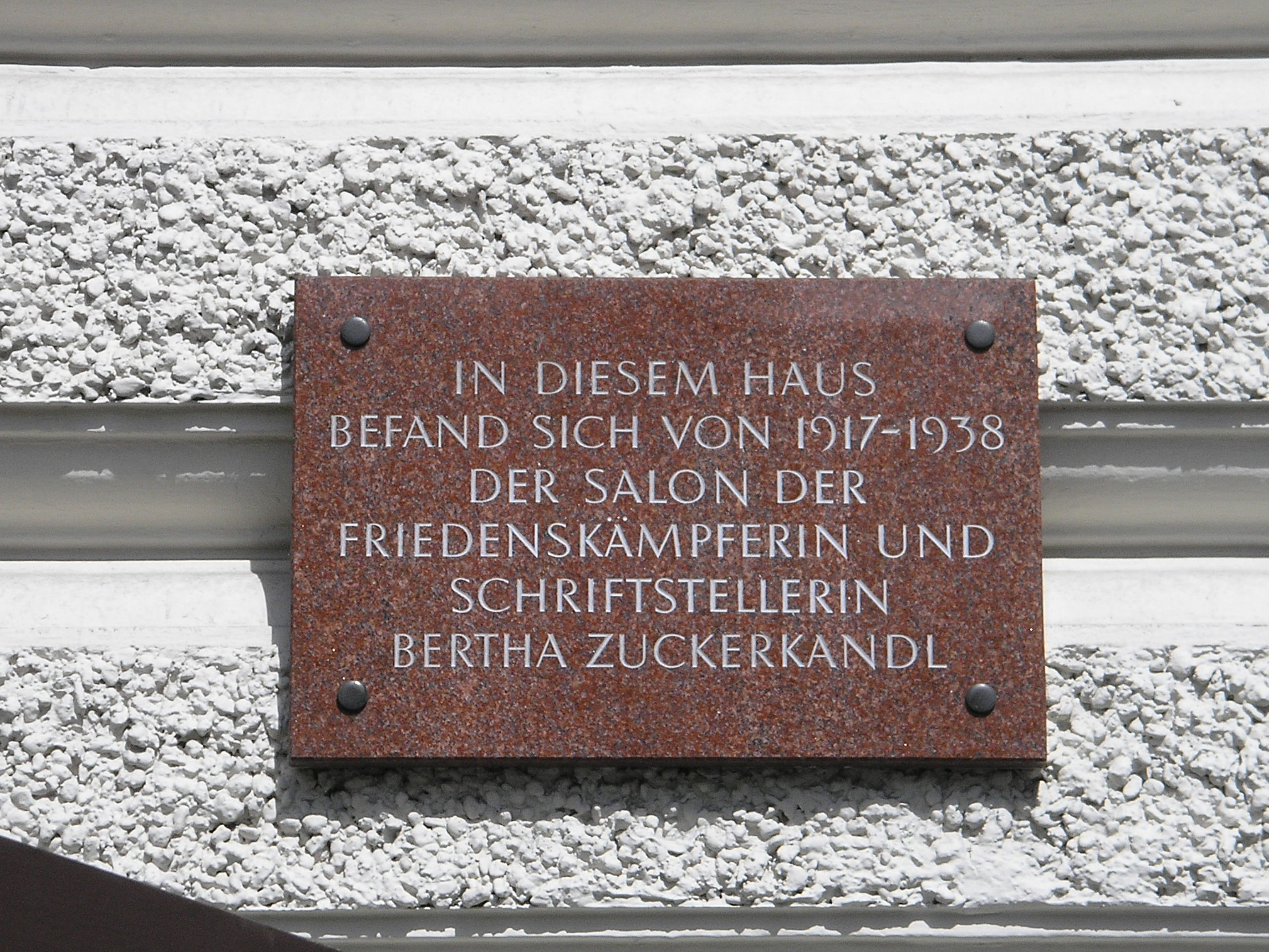 Description: Gedenktafel für Bertha Zuckerkandl am Café Landtmann in Wien. Source: self-made, I release it into the public domain. Gryffindor 22:28, 23 March 2006 (UTC)